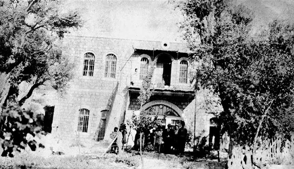 Ezra Girls School